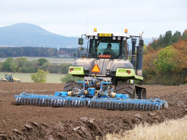 Claas Challenger 75E and Lemken Zirkon Power Harrow, near to Fairnington, Scottish Borders, Great Britain. Equipment in use prior to seeding this expansive field.